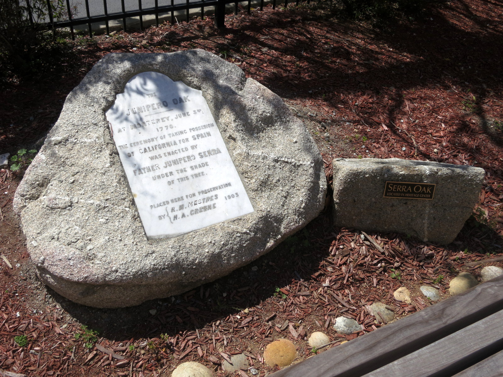 San Carlos Borromeo Cathedral (Monterey, CA) - exterior, Junípero Serra Oak memorial